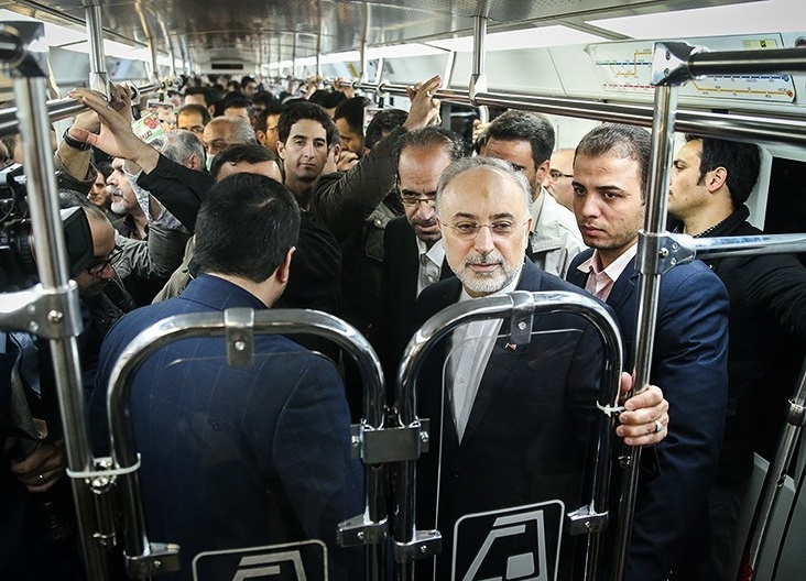 Iran's Head of Atomic Energy Organization, Ali Akbar Salehi departures to his office with metro in national day of healthy air